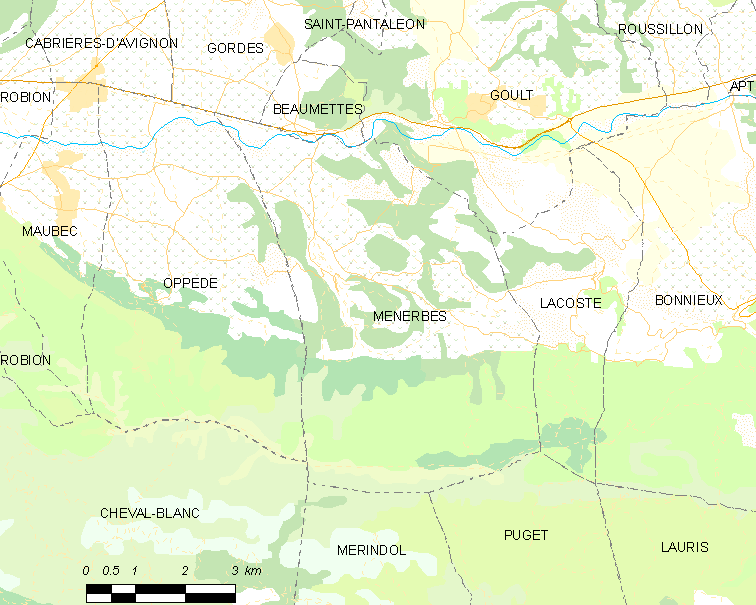 Map of French municipality Ménerbes